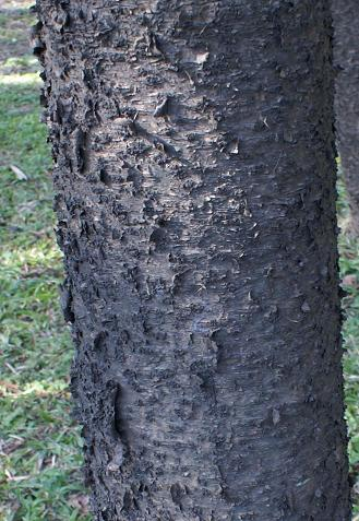 Bark of Araucaria heterophylla